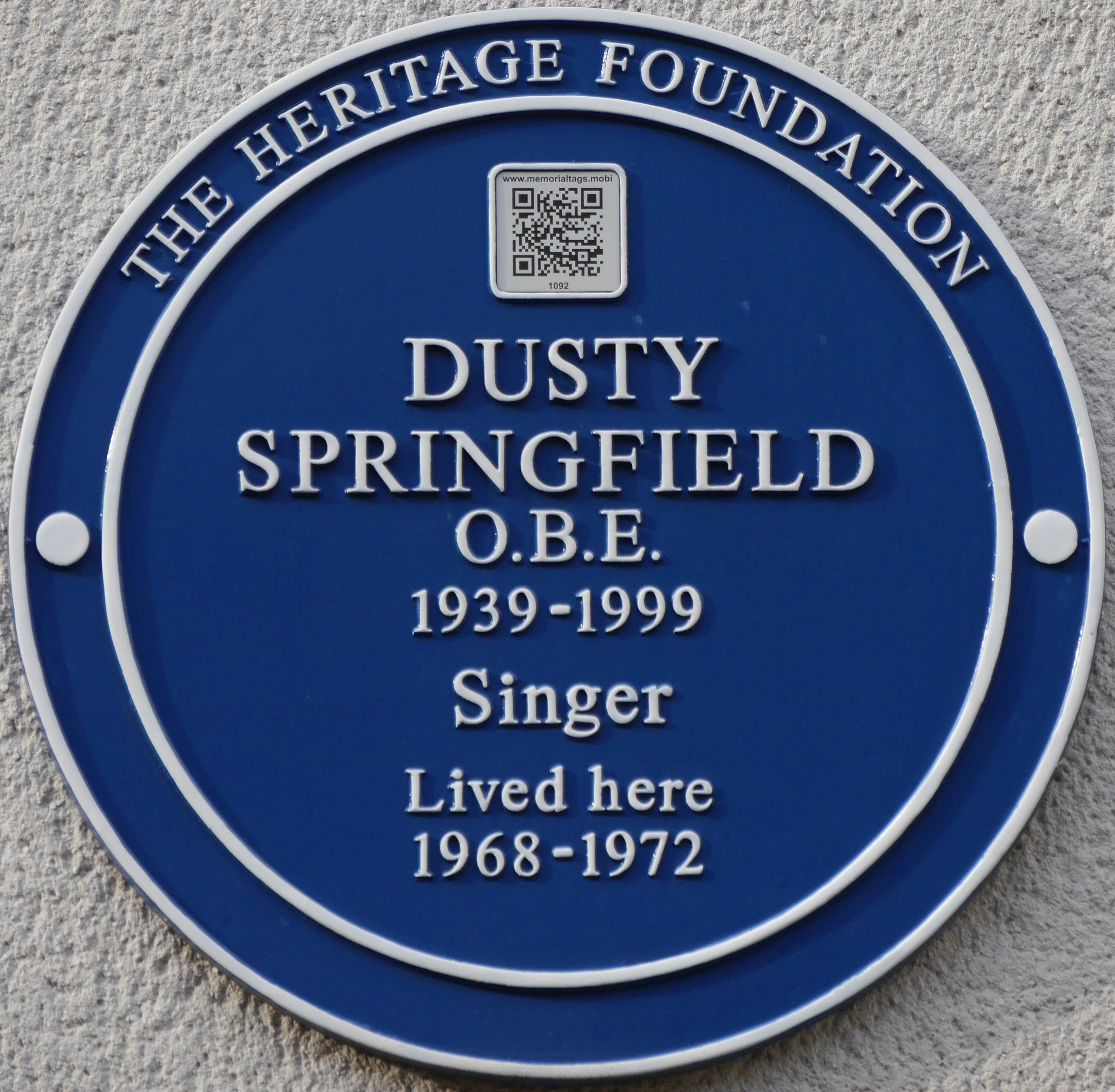 Dusty Springfield blue plaque